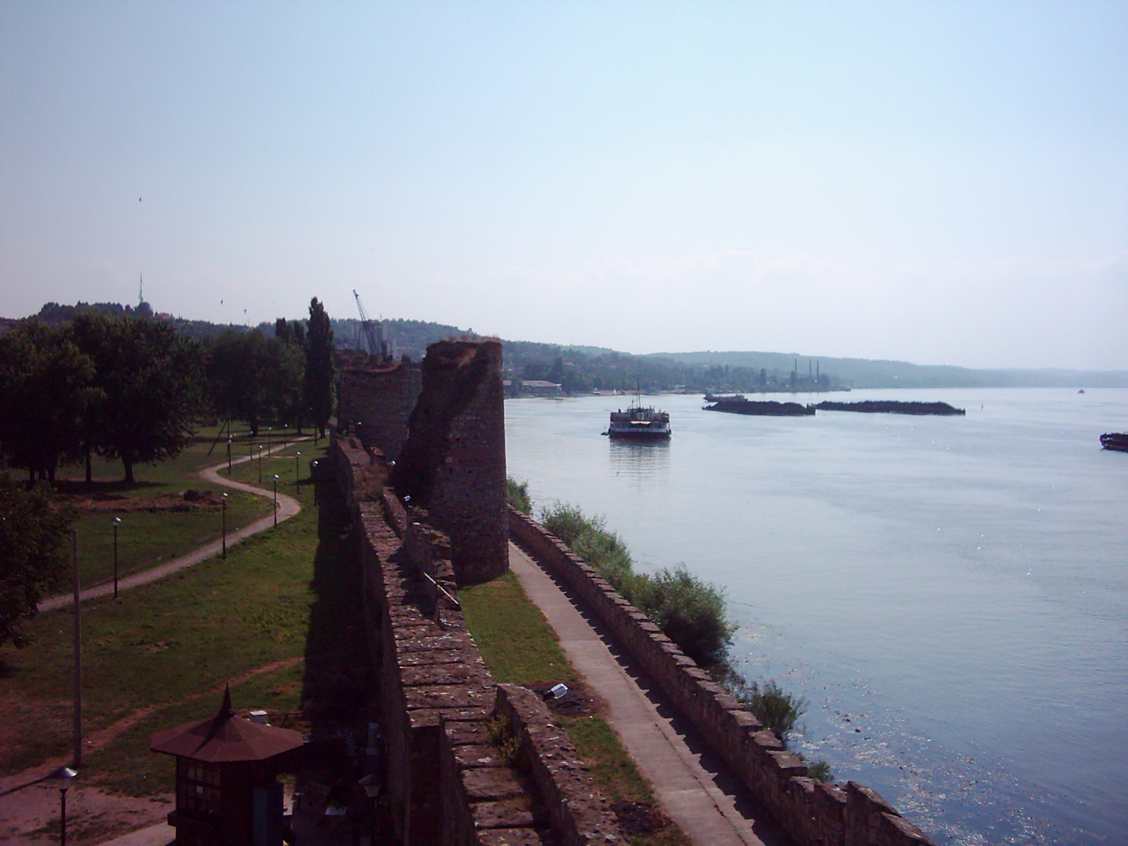 Danube river from Smederevo Fortress, Serbia